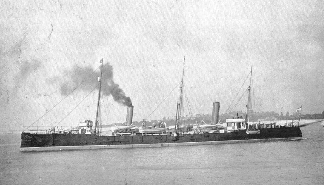 Photograph of British third class cruiser HMS Bellona (1890-1906).